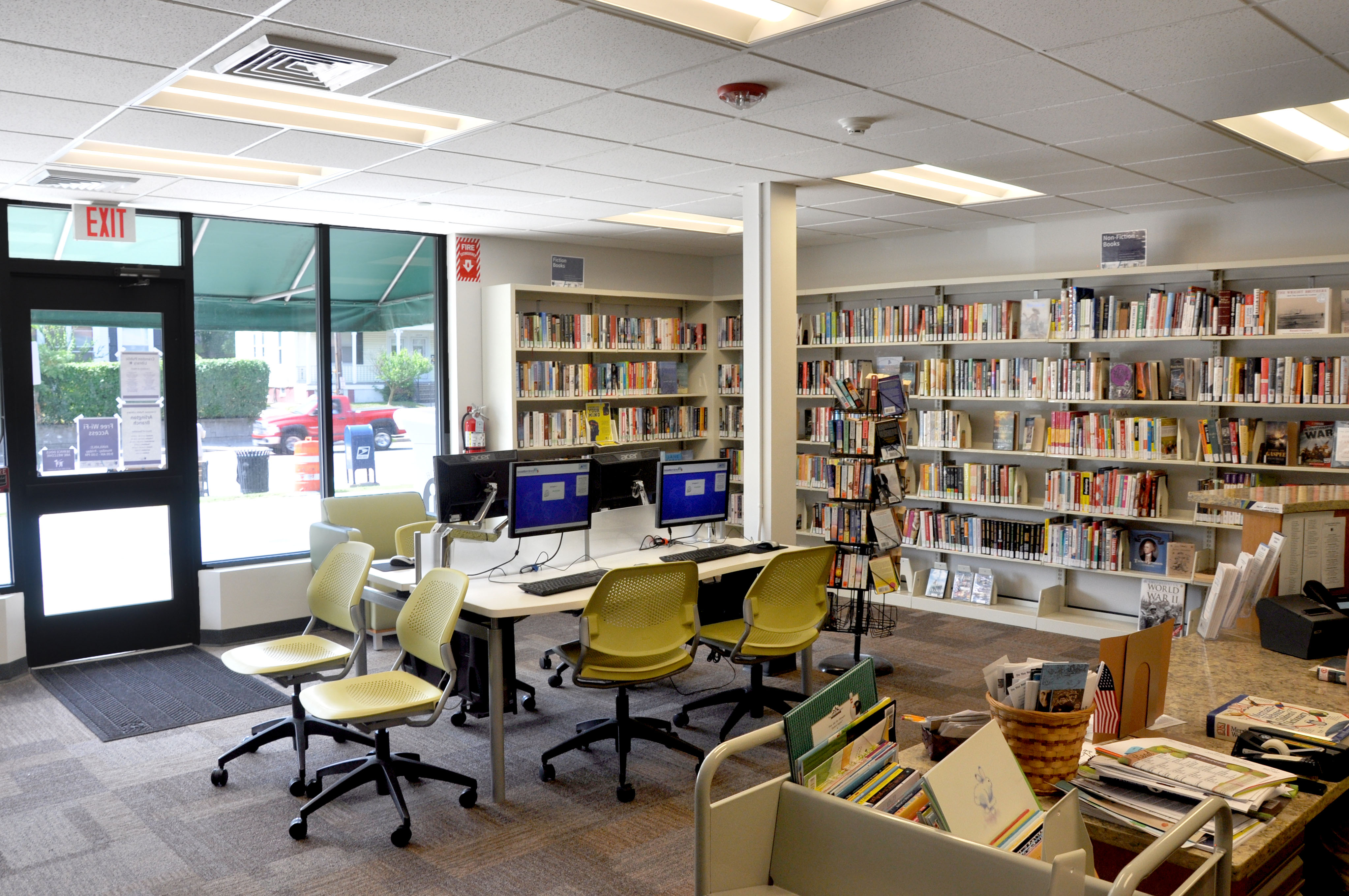 In 2013, the Arlington Branch was officially dedicated as a fully operational library branch.